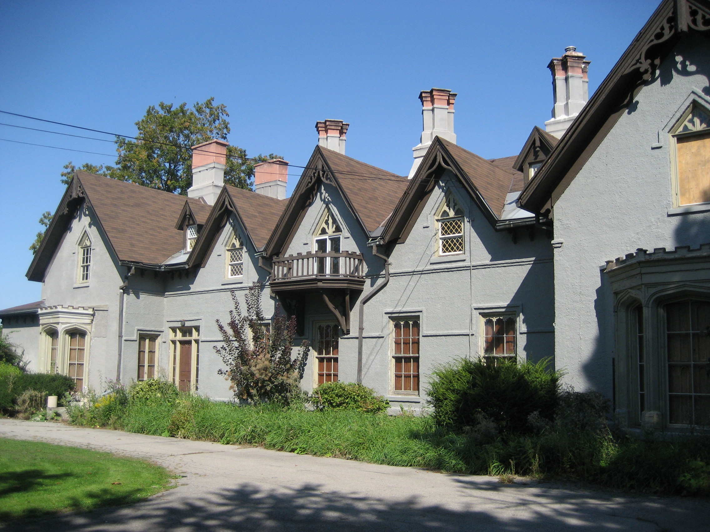 Auchmar, historic site and one-time Estate of Isaac Buchanan, who founded both the Hamilton and Toronto Board of Trades, Fennell Avenue, Hamilton, Canada.